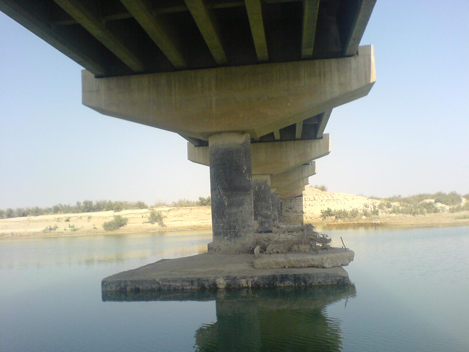 Mand River bridge (at Bushehr Province, South Iran)